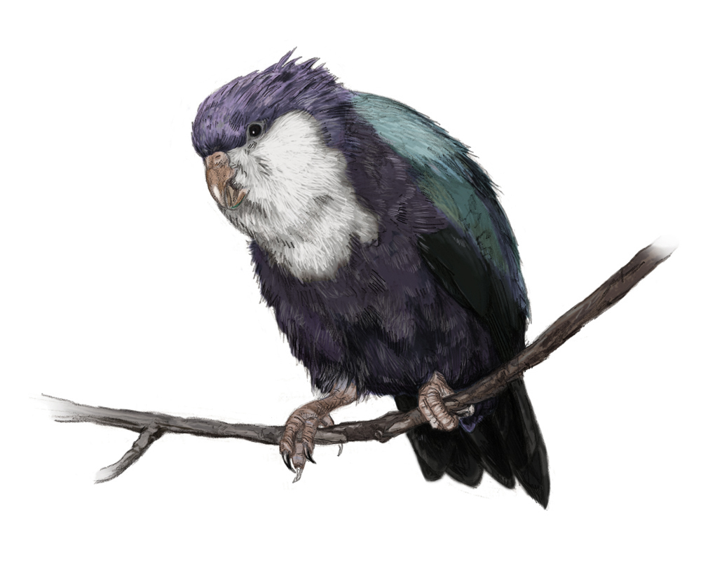 Hypothetical restoration of the conquered Lorikeet, based on fossils and related species, the colouration is fictional